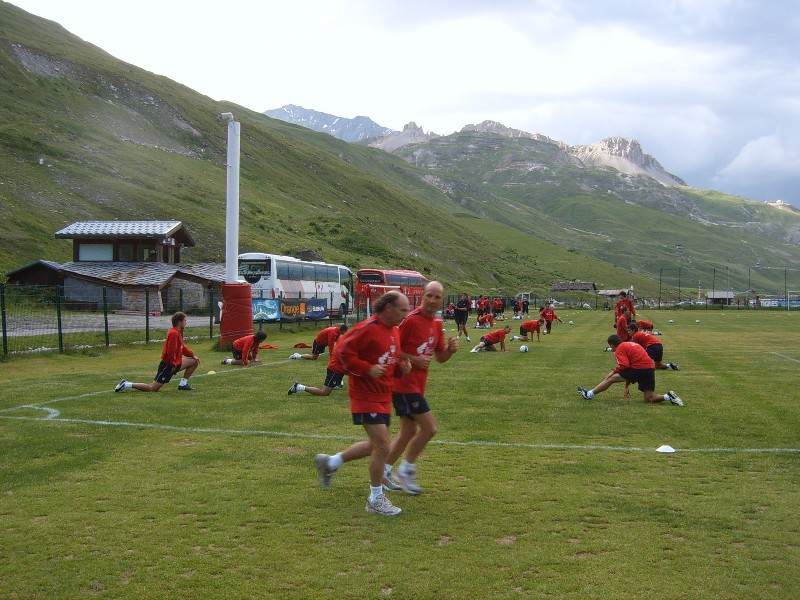 Athletic Bilbao training in Tignes